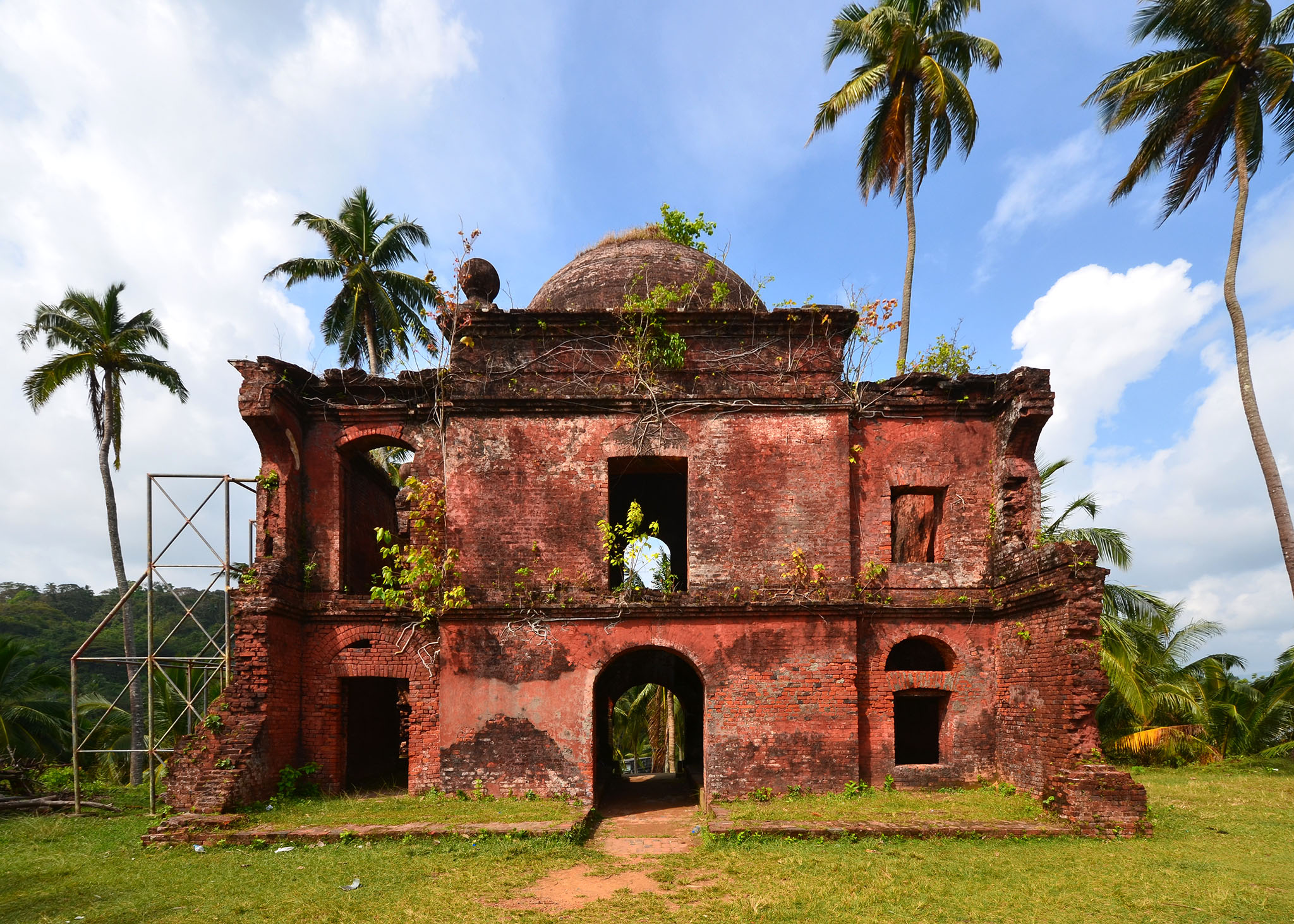 Hilltop Gallows at Viper Island, Andaman and Nicobar Islands